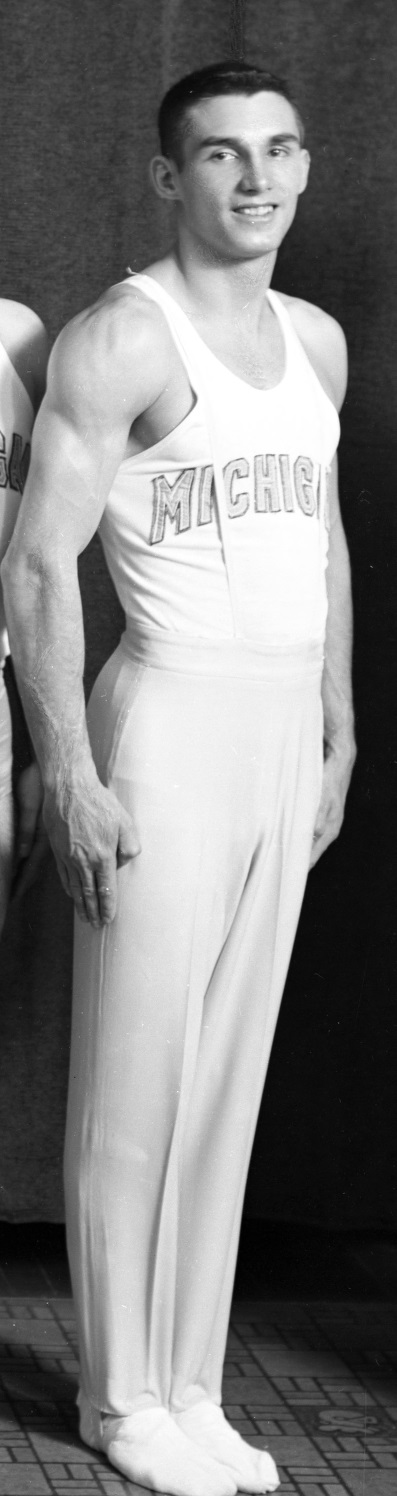 Photograph of Ed Gagnier cropped from 1957 team portrait of Michigan gymnastics team. First published in the 1957 Michiganensian (Univ. of Michigan yearbook) at page 386 without copyright notice